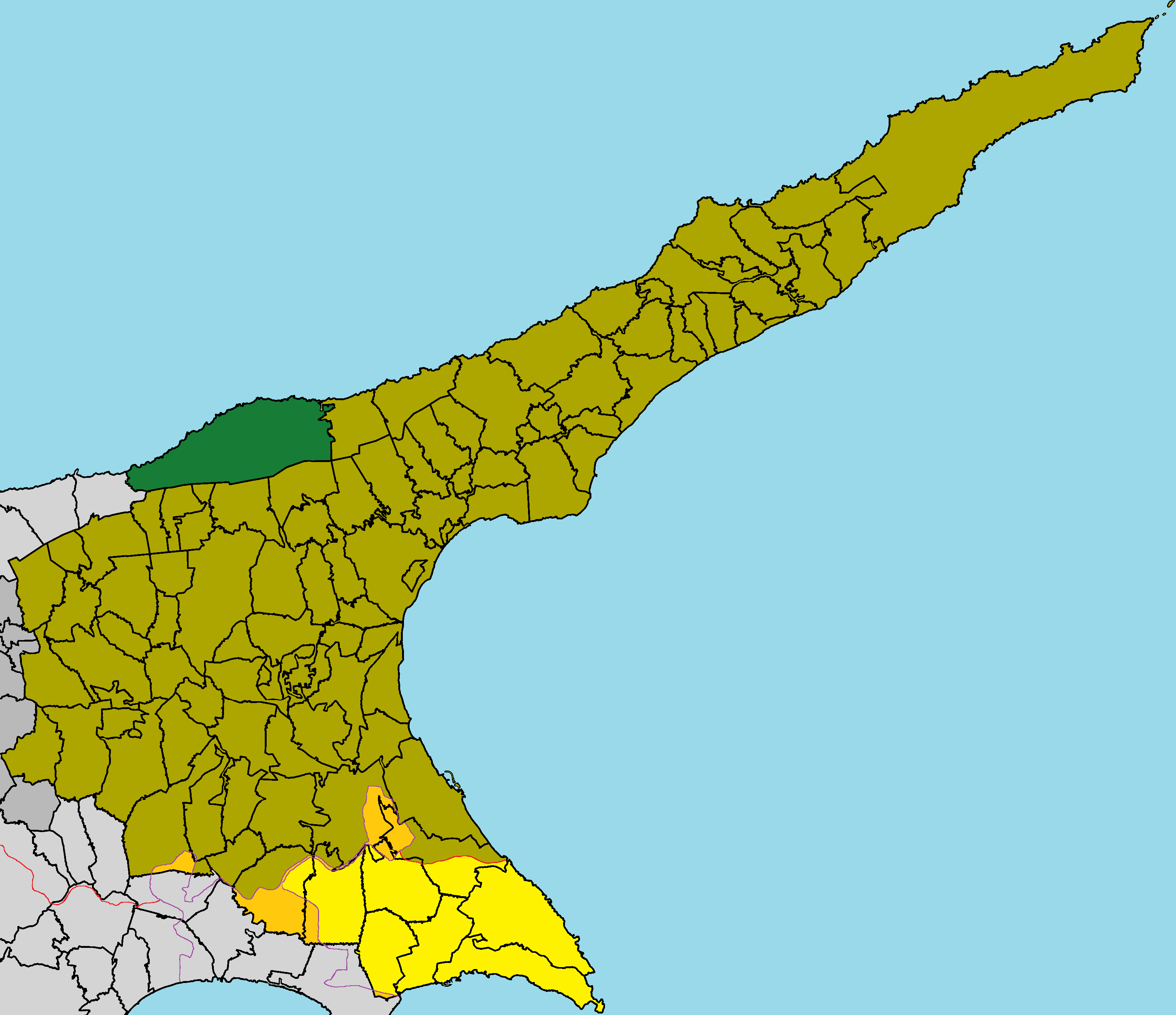 Akanthou in Famagusta District (de jure).